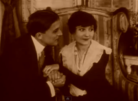 1916 screenshot of Édouard Mathé and Louise Lagrange in the Louis Feuillade-directed film series Les Vampires